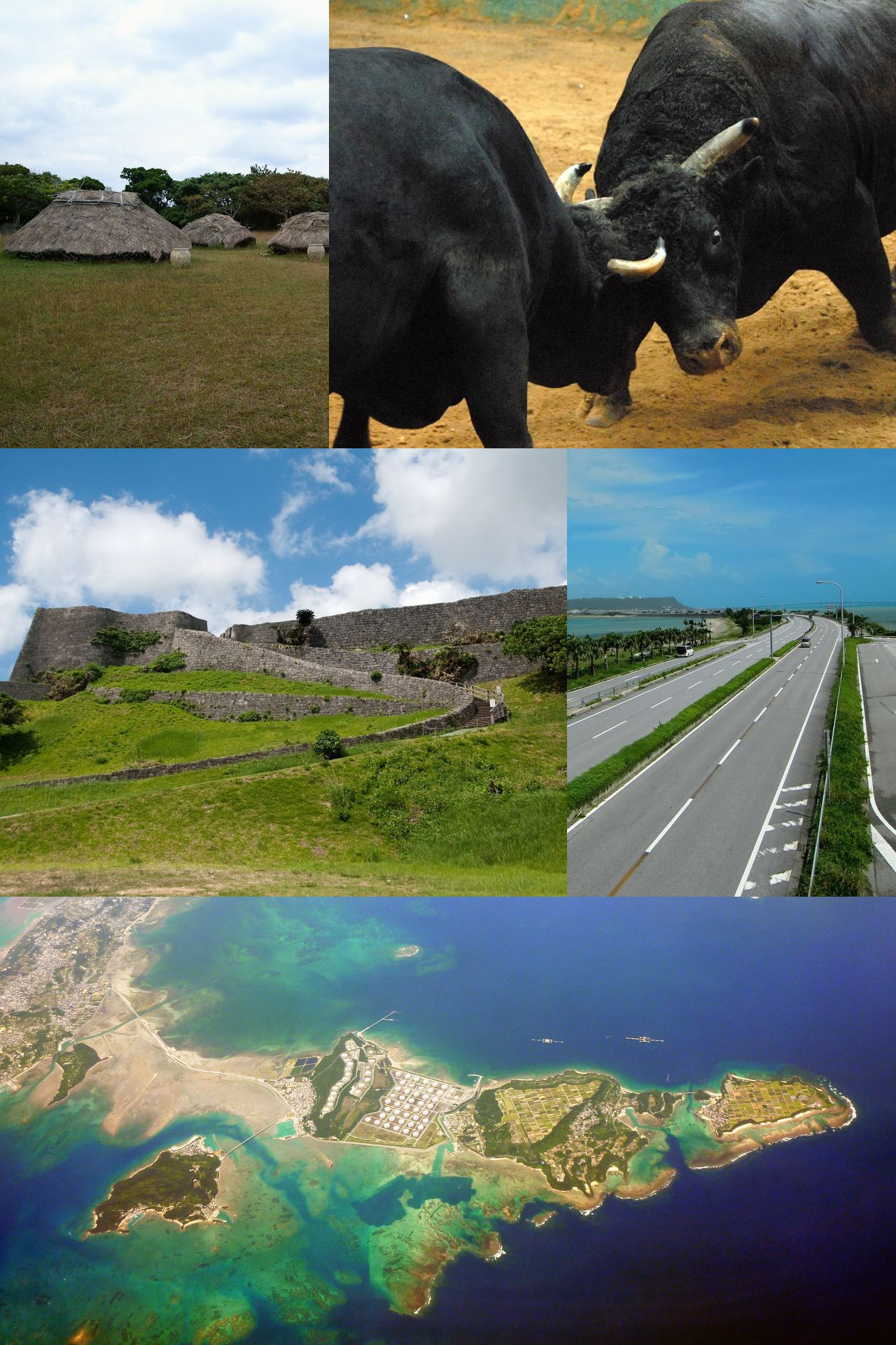 This image is montage of Uruma, Okinawa prefecture, Japan upper left : The Nakabaru Ruin in Ikei Island upper right : Togyu in Ishikawa Area middle left : Katsuren Gusuku middle right : Mid-Sea Road bottom : Yokatsu Islands